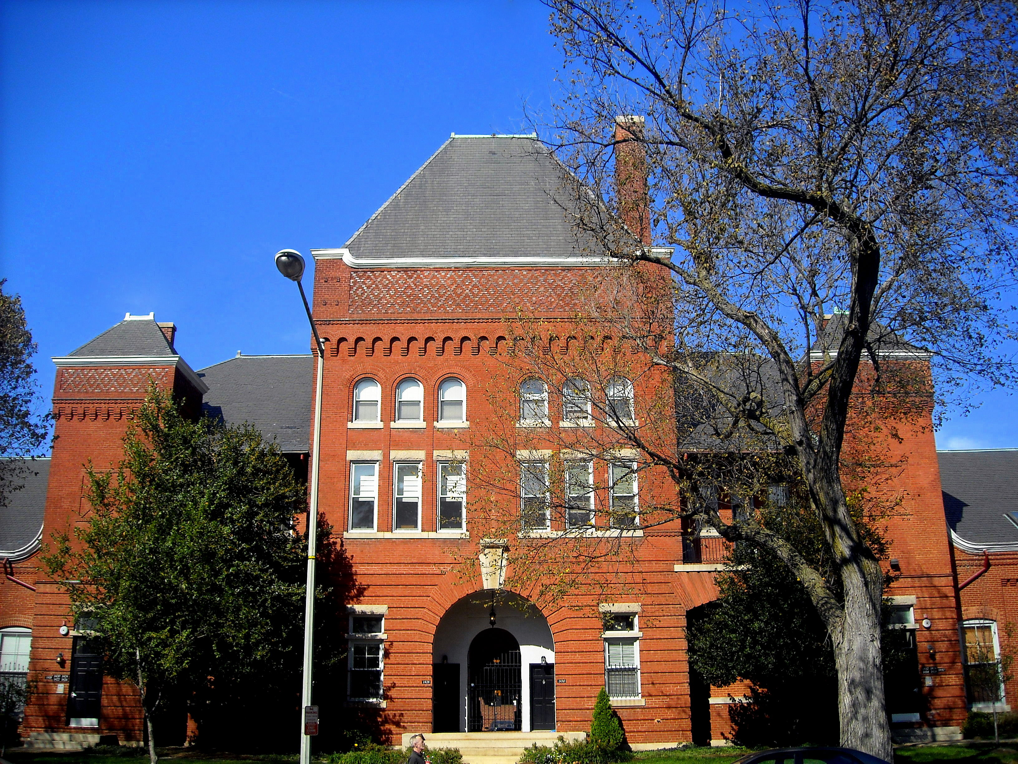 The Car Barn Condominiums (historically known as the East Capitol Street Car Barn or Metropolitan Railroad Company Car Barn) located at 1400 East Capitol Street, NE in the Capitol Hill neighborhood of Washington, D.C. Designed by local architect Waddy Butler Wood in 1896, the building is an example of Romanesque architecture and is listed on the National Register of Historic Places.